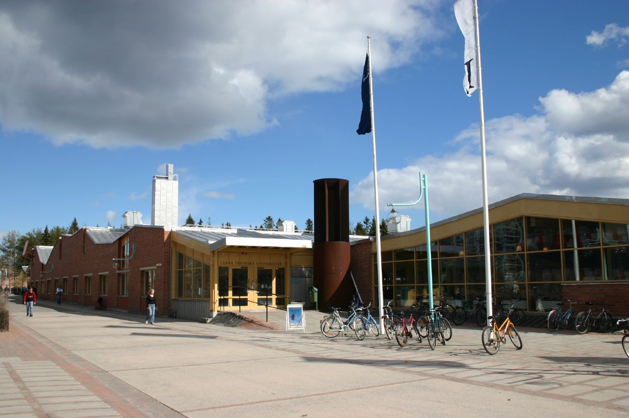 The B-building on Campus Luleå, Luleå University of Technology, Sweden